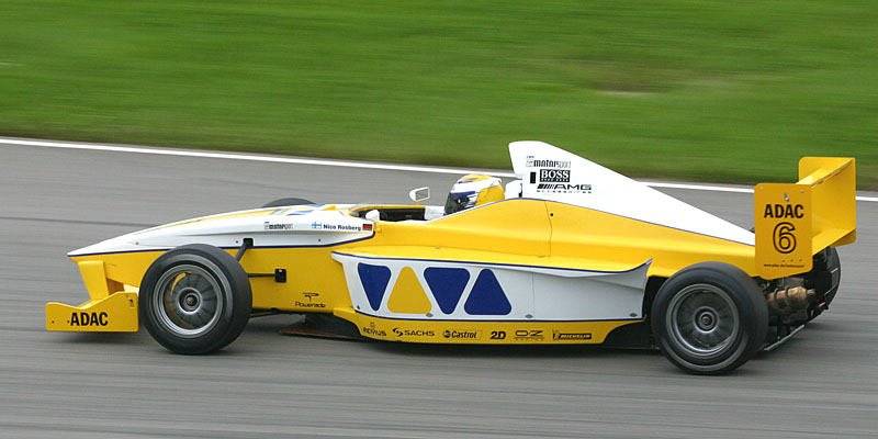 Nico Rosberg, Formel BMW/ADAC on Sachsenring Circuit.